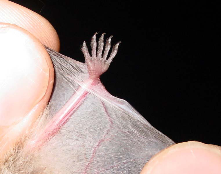 Adam Mann, Environmental Solutions and Innovations Indiana Bat Foot. Notice the bump to the right of the foot -- this is called a keeled calcar and is characteristic of Indiana bats.